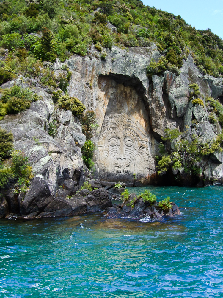 Maori rock carvings at Mine Bay on Lake Taupō, over 10 metres high and are only accessible by boat or kayak.